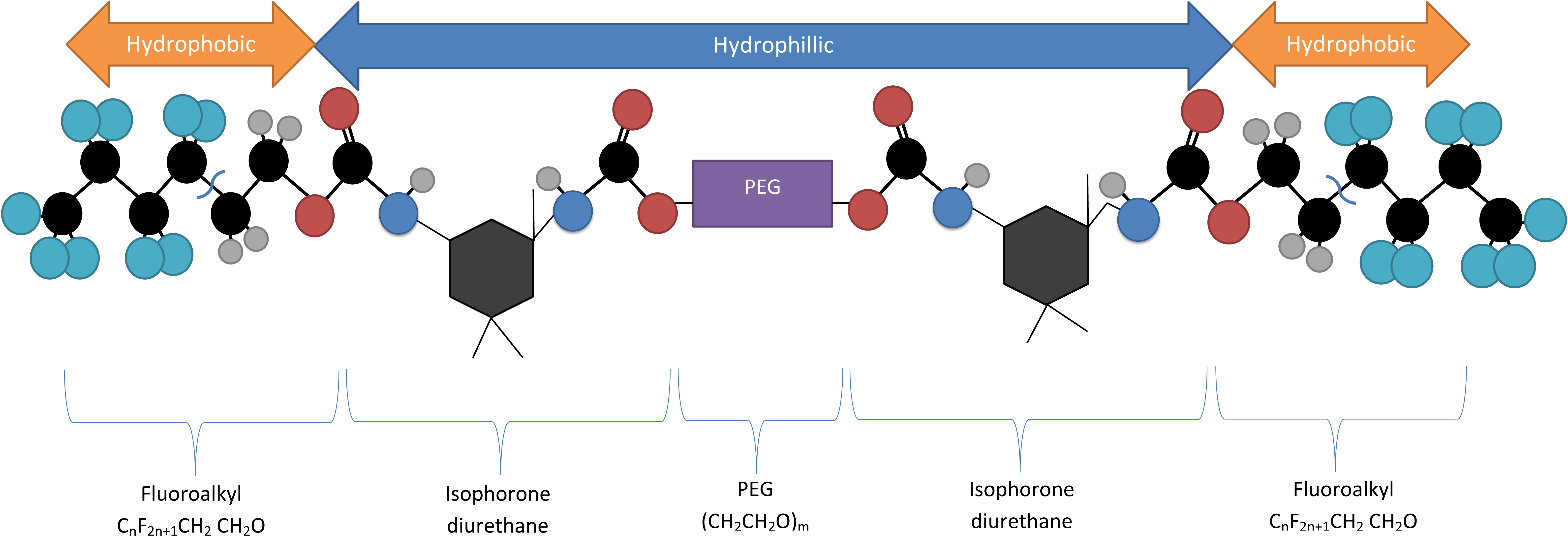 Structure of Rf-Polymer used in hydrogel encapsulation of quantum dots. The figure indicates the hydrophobic and hydrophillic regions of the polymer.